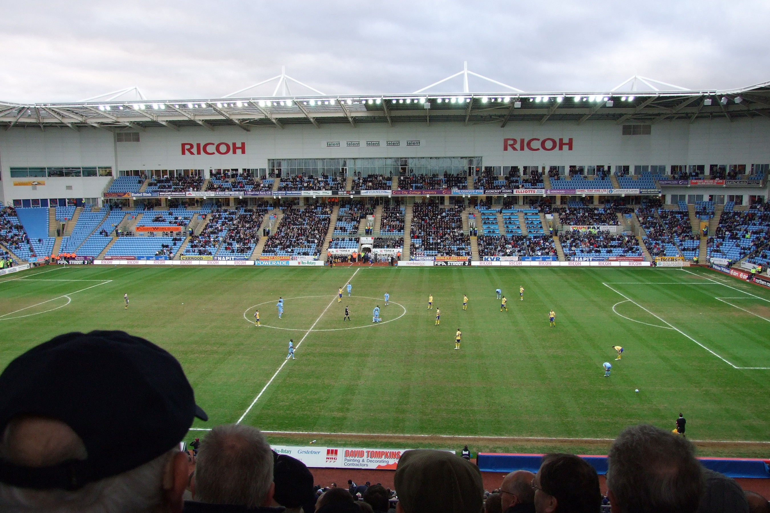 Ricoh Arena, Coventry, England, during a football match.